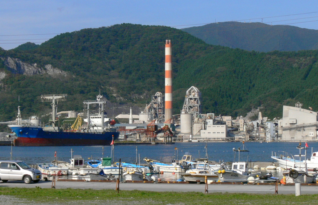 Ofunato Port East bank, Iwate prefecture, Japan.